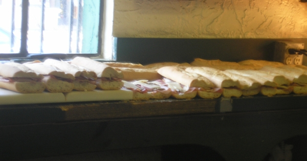 A line of Cuban sandwiches ready for the lunch crowd at a popular cafe in Ybor City, Tampa.